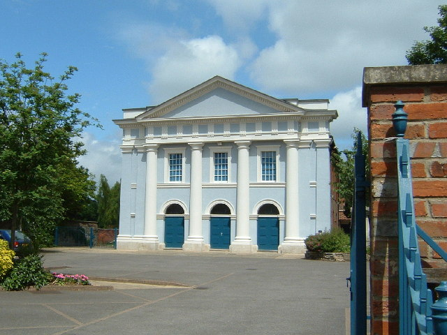 Baptist Church, Ock Street, Abingdon, Oxfordshire (formerly Berkshire), seen from south south-east